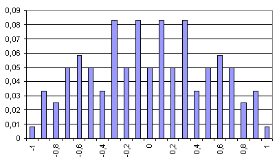 Distribution of Spearman's rank correlation for independent variables, and sample N=5